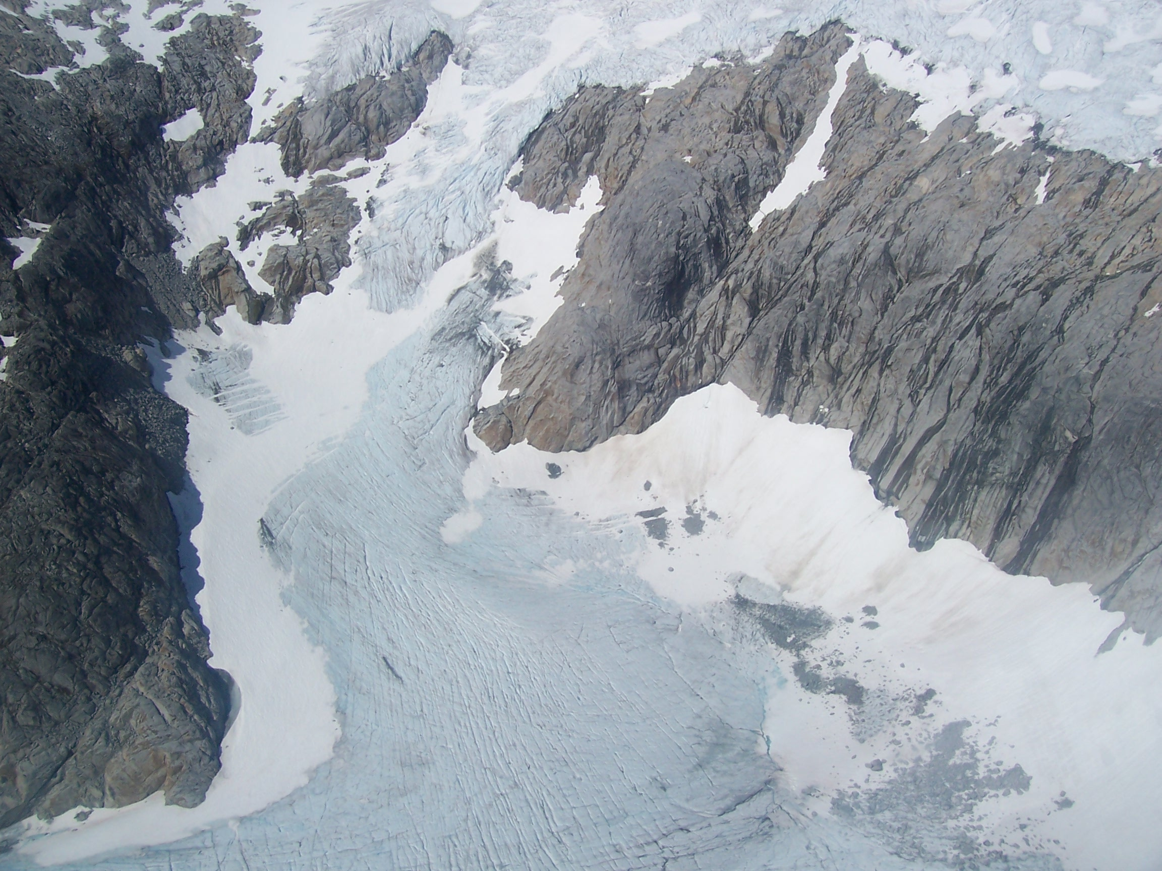 An overhead picture of the Taku glacier. Taken on August 13th, 2007 by Jeffrey Drost.